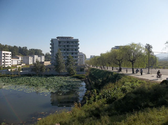 A photo of Anju, North Korea.